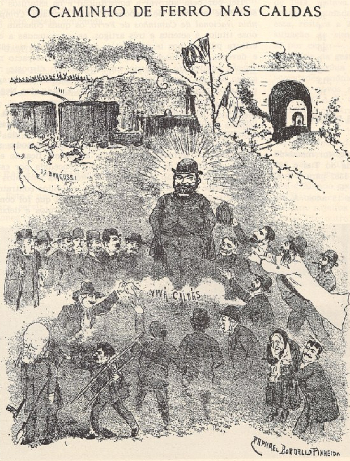 Caricature of the line between Torres Vedras and Leiria, in the Linha do Oeste (Oeste Railway), in Portugal. This sketch was originally made for the "Pontos nos ii" magazine of 7th July 1887. This image was published on the Gazeta dos Caminhos de Ferro magazine No. 1926, of the 16th June 1968, and scanned by the Hemeroteca Municipal de Lisboa.